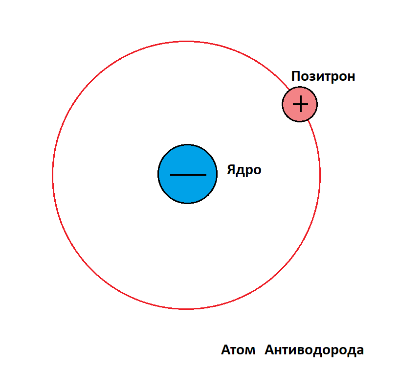 Structure of the antihydrogen atom